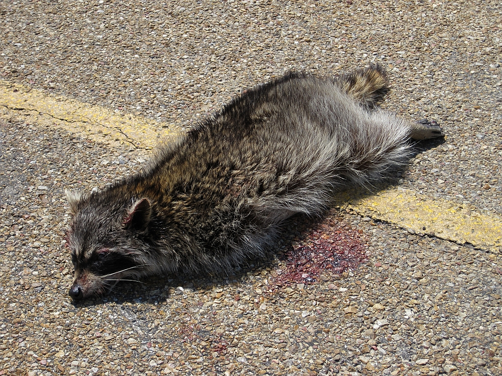 Roadkill Raccoon near Proctor, Arkansas